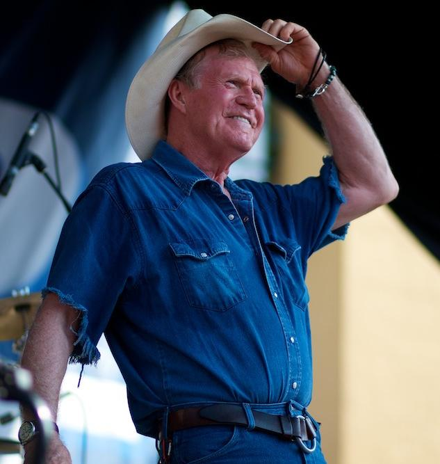 Billy Joe Shaver at Willie Nelson's 4th of July picnic in 2011.